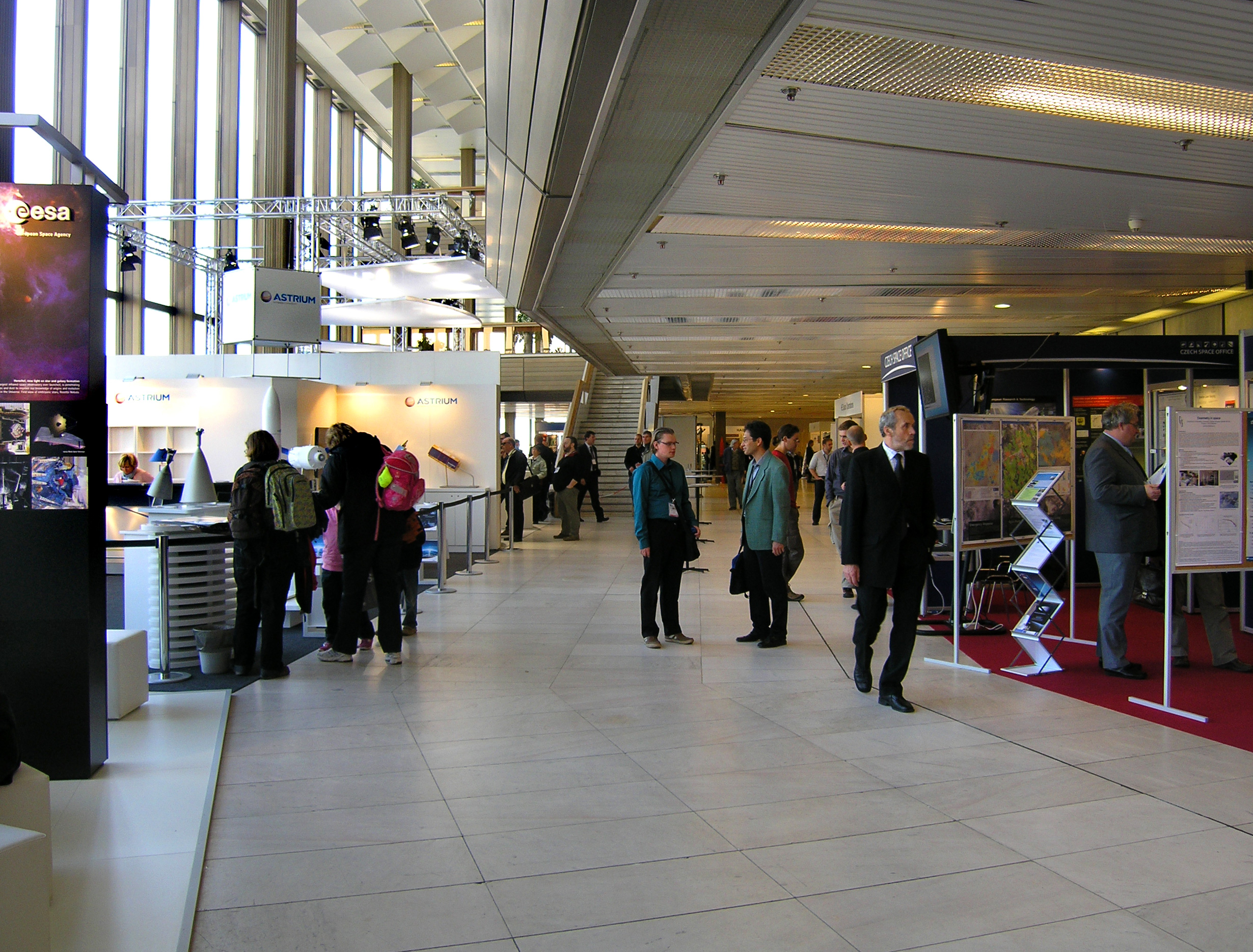 Exhibition during the 61st International Astronautical Congress in Prague, Czech Republic